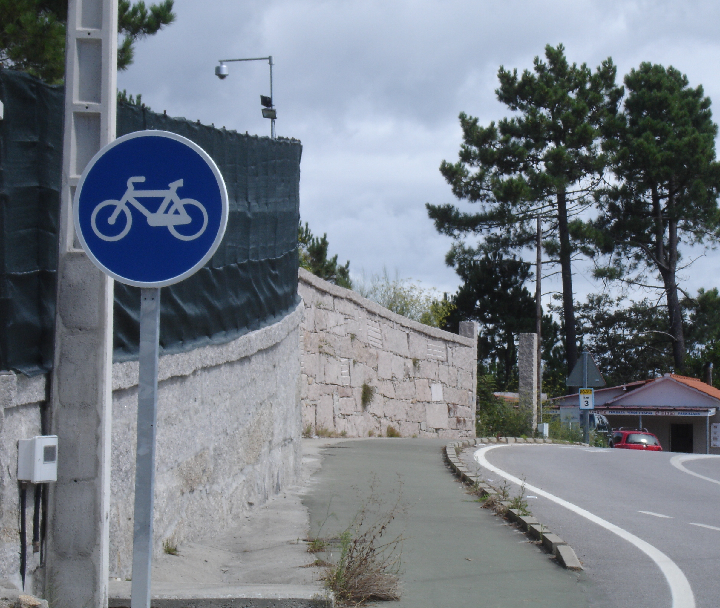 Cycle track in Spain